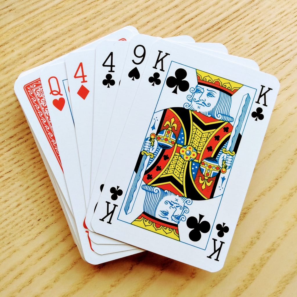 A combined deck and hand of cards for the game Royal Marriage.